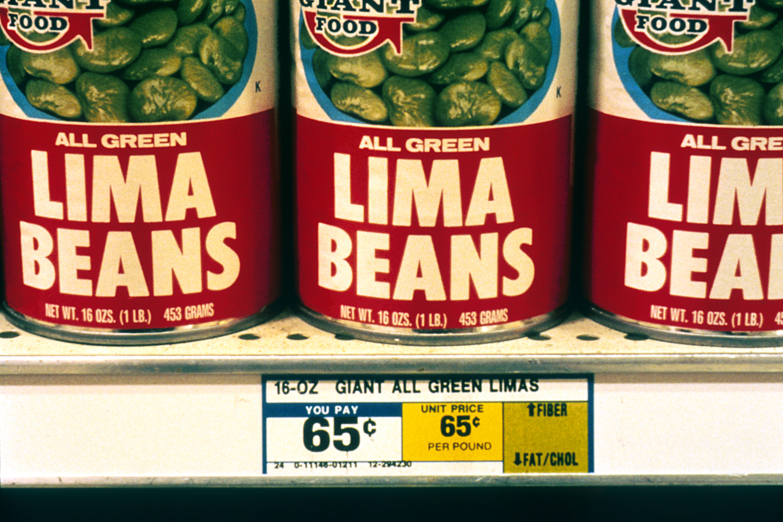 Title Lima Bean Cans Description Three cans of lima beans placed on supermarket shelf. These beans are high in fiber and/or low in fat. This is part of a cooperative study of NCI and Giant Foods to try to change shoppers' buying habits to buy foods higher in fiber and lower in fats to help prevent cancer. Topics/Categories Food and Drink Type Color, Photo Source National Cancer Institute